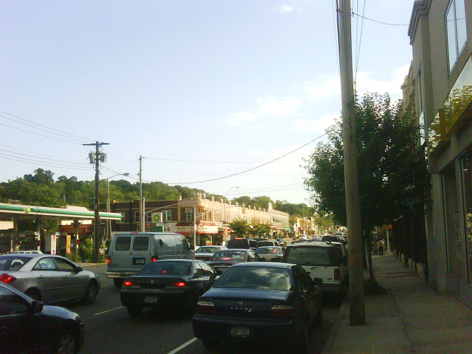 Looking southwest along Northern Boulevard from Great Neck, Nassau County, New York taken on June 2008. (Note that the photo location is on the border of Nassau County and Queens County (New York City) looking west towards Queens.